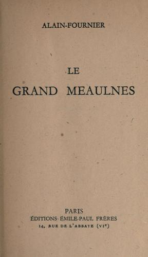 Le Grand Meaulnes Old Cover